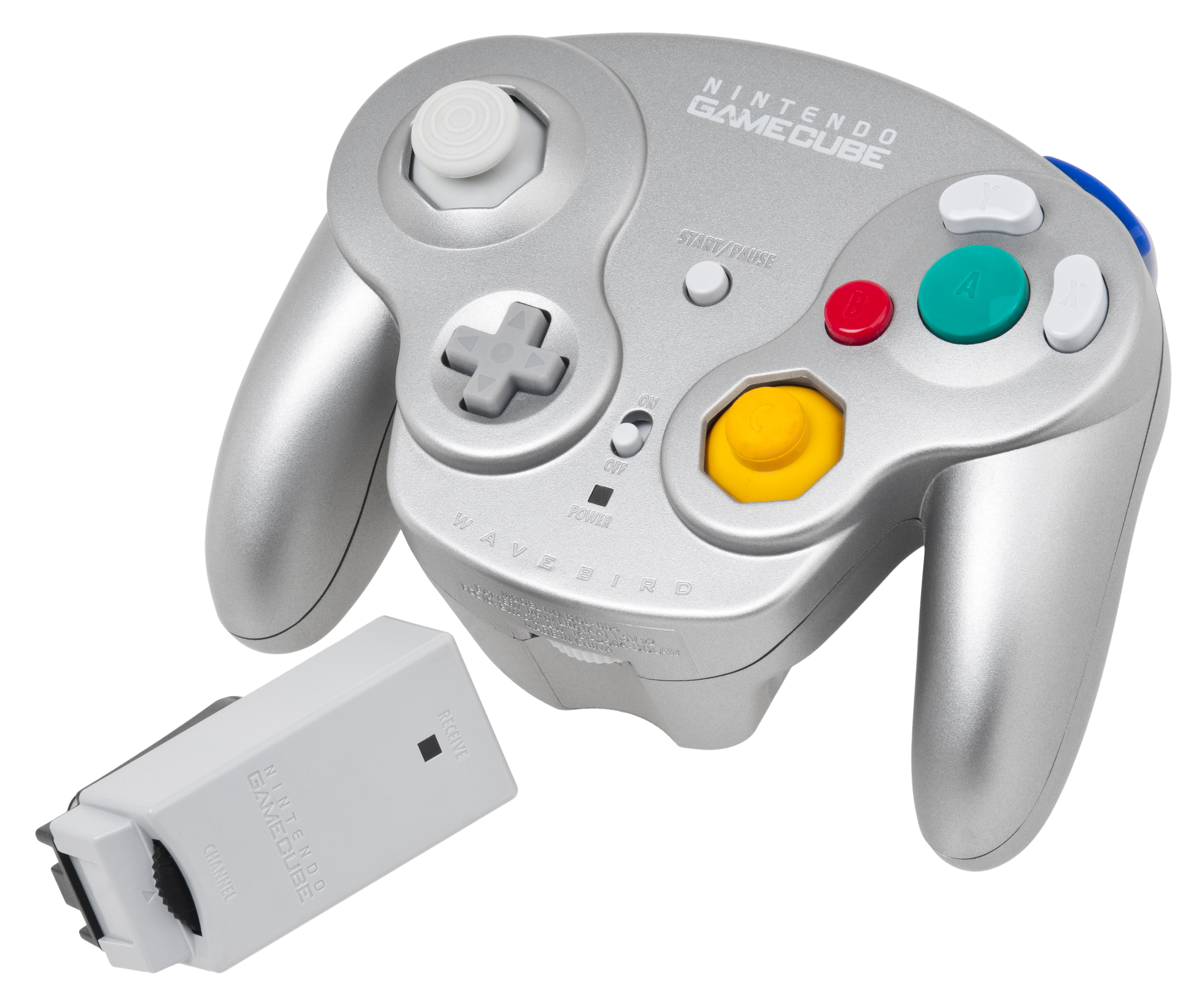 Nintendo WaveBird wireless controller (DOL-004) and wireless receiver (DOL-005) for the Nintendo GameCube games console.